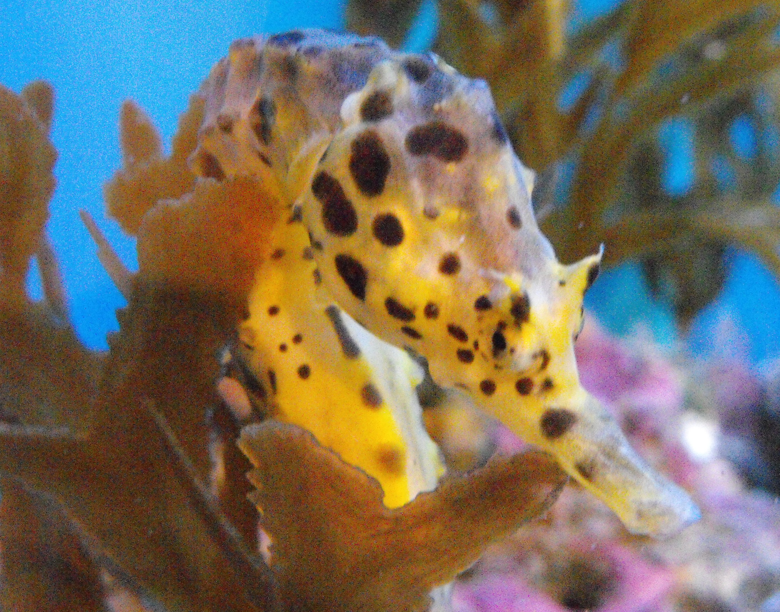 Hippocampus abdominalis at the Birch Aquarium, San Diego, California, USA.